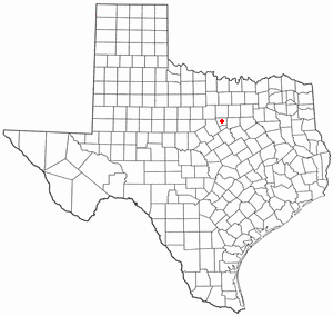 Adapted from another TXMap-doton.